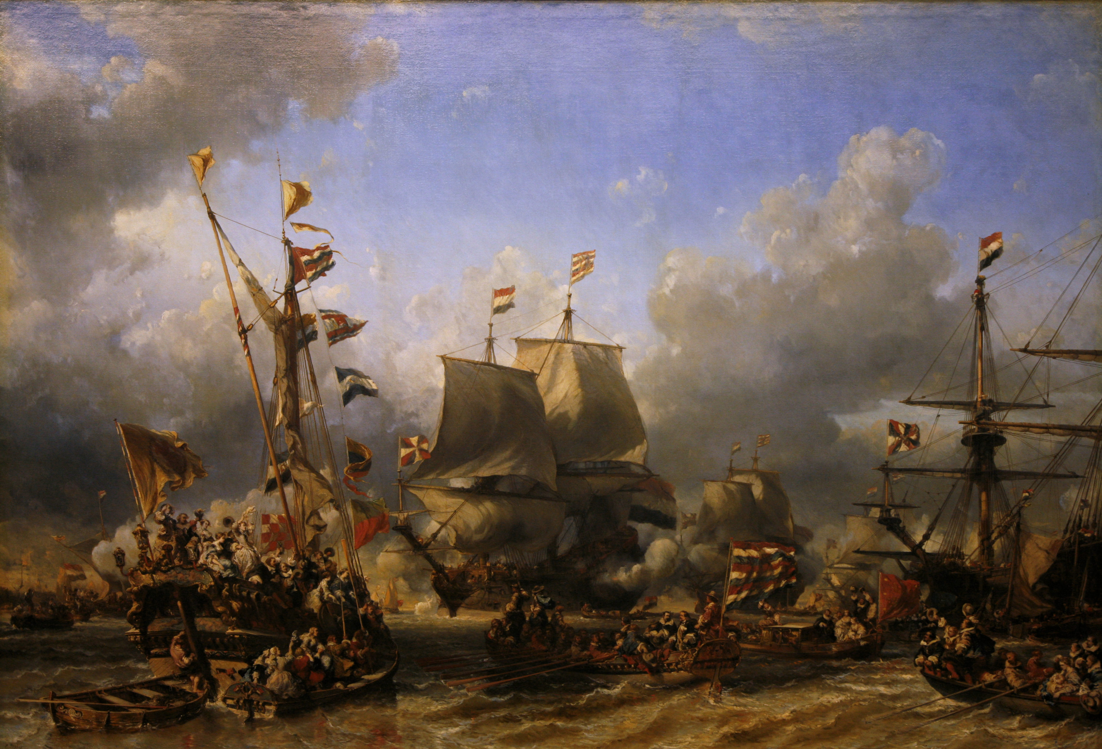 Artist Eugène Isabey (1803–1886) Alternative names legal name: Louis Gabriel Eugène IsabeyDescriptionFrench painter and lithographerDate of birth/death 22 July 1803 27 April 1886 Location of birth/death Paris MontévrainAuthority control : Q714341 VIAF: 44309397 ISNI: 0000 0001 0654 0479 ULAN: 500007382 LCCN: n81062526 WGA: ISABEY, Eugène WorldCat artist QS:P170,Q714341Description Embarkment of de Ruyter and de Witt at Texel, 1667Collection Musée national de la Marine Native nameMusée national de la MarineLocationParisCoordinates48° 51′ 43″ N, 2° 17′ 15″ E Established1827Web page control : Q1286709 VIAF: 19144648200974718522 ISNI: 0000 0001 2259 2914 LCCN: n50055356 Museofile: M5026 WorldCat institution QS:P195,Q1286709Accession number 9 OA 51DSource/Photographer Med Embarkment of de Ruyter and de Witt at Texel, 1667